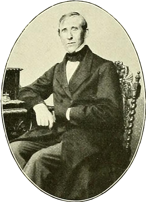 Portrait of the botanist Otto Wilhelm Sonder